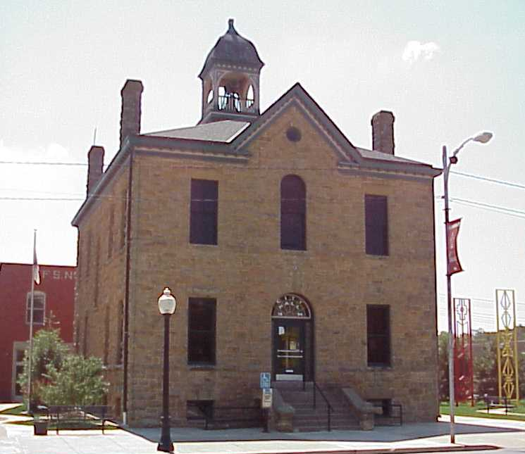 Pawhuska, Oklahoma City Hall, on the NRHP